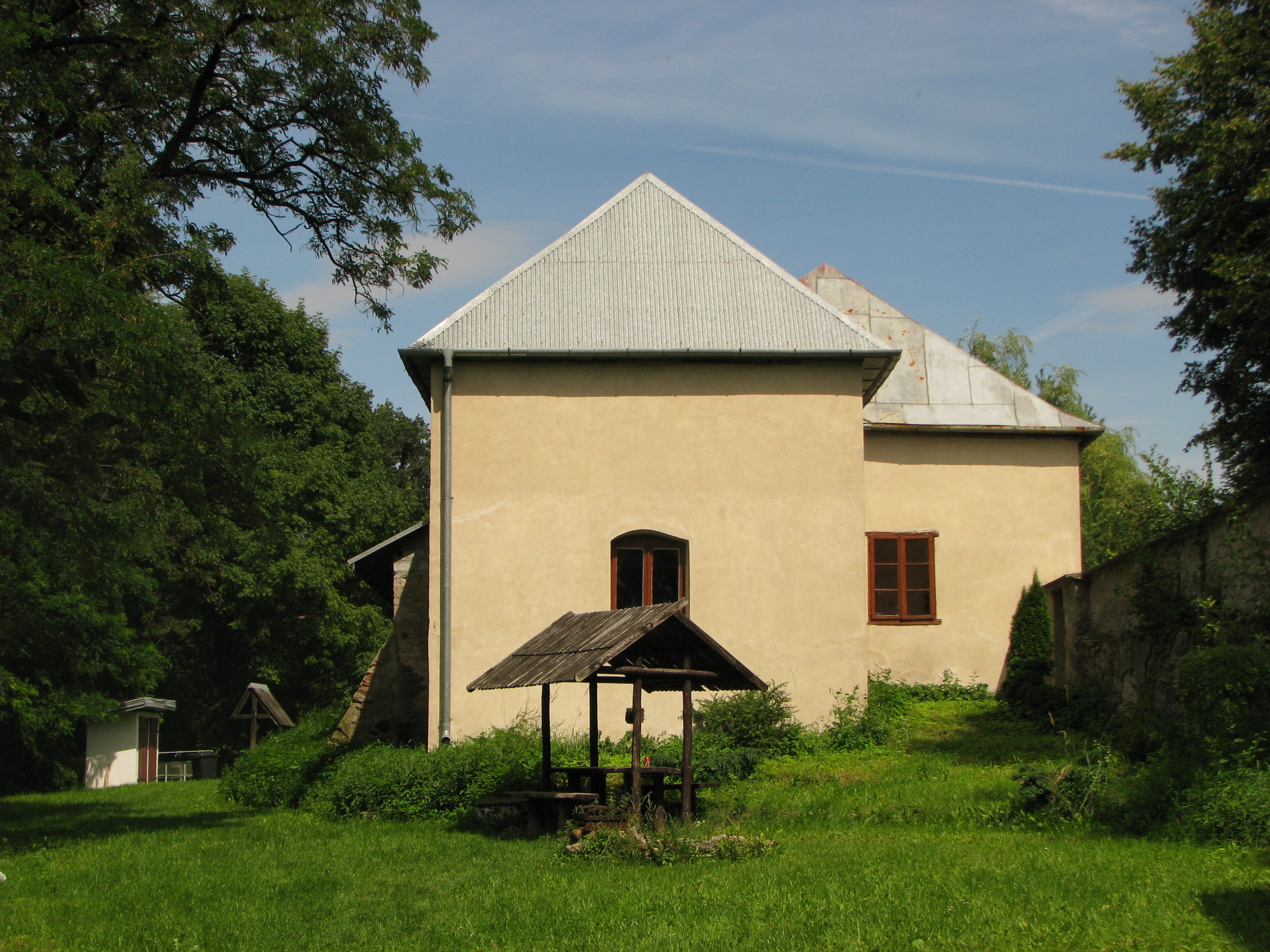 Buildings of former rectory near the Holy Trinity Church in Raków, Poland.